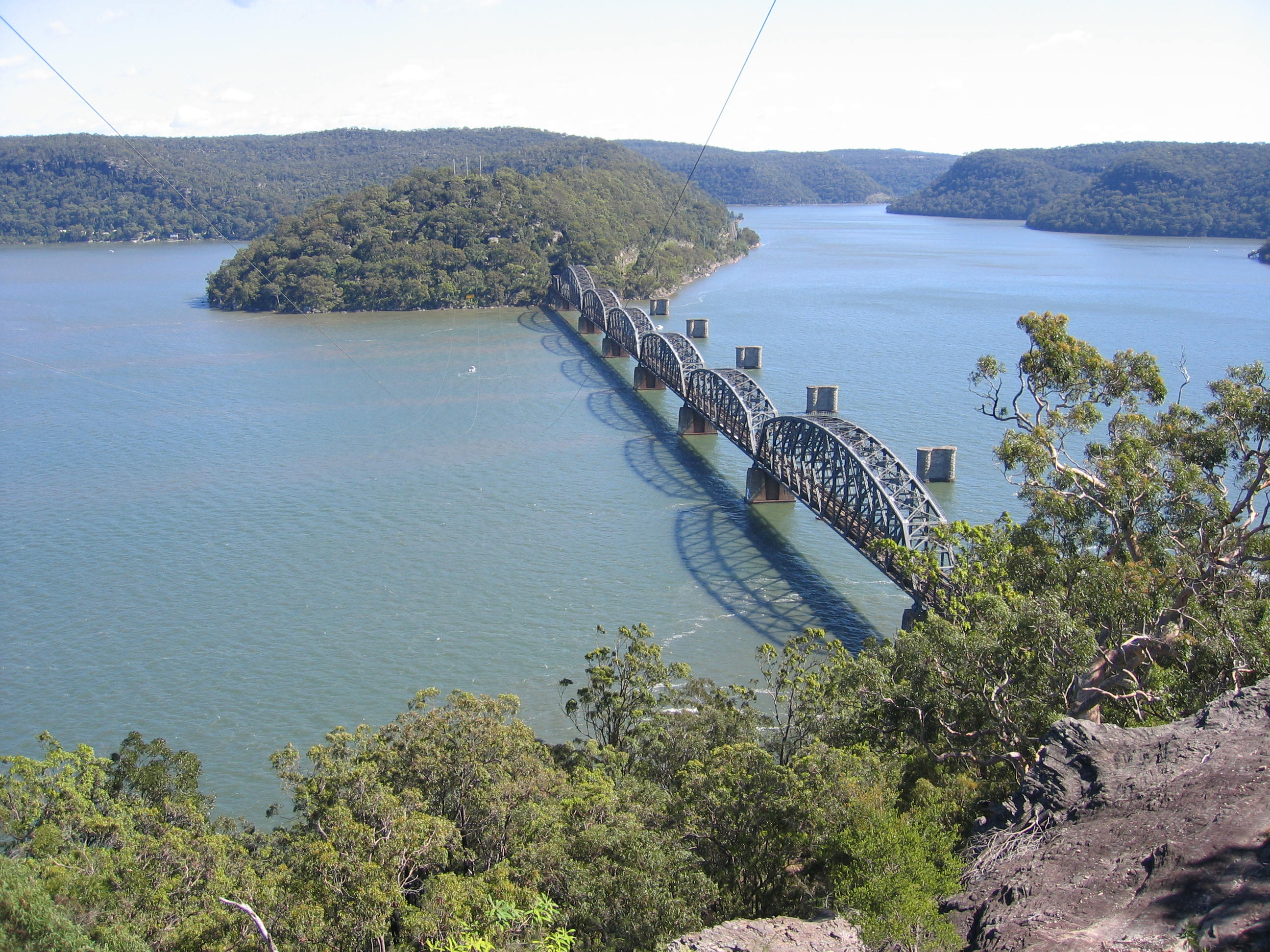 Hawkesbury River Railway Bridges, looking north from Long Island.